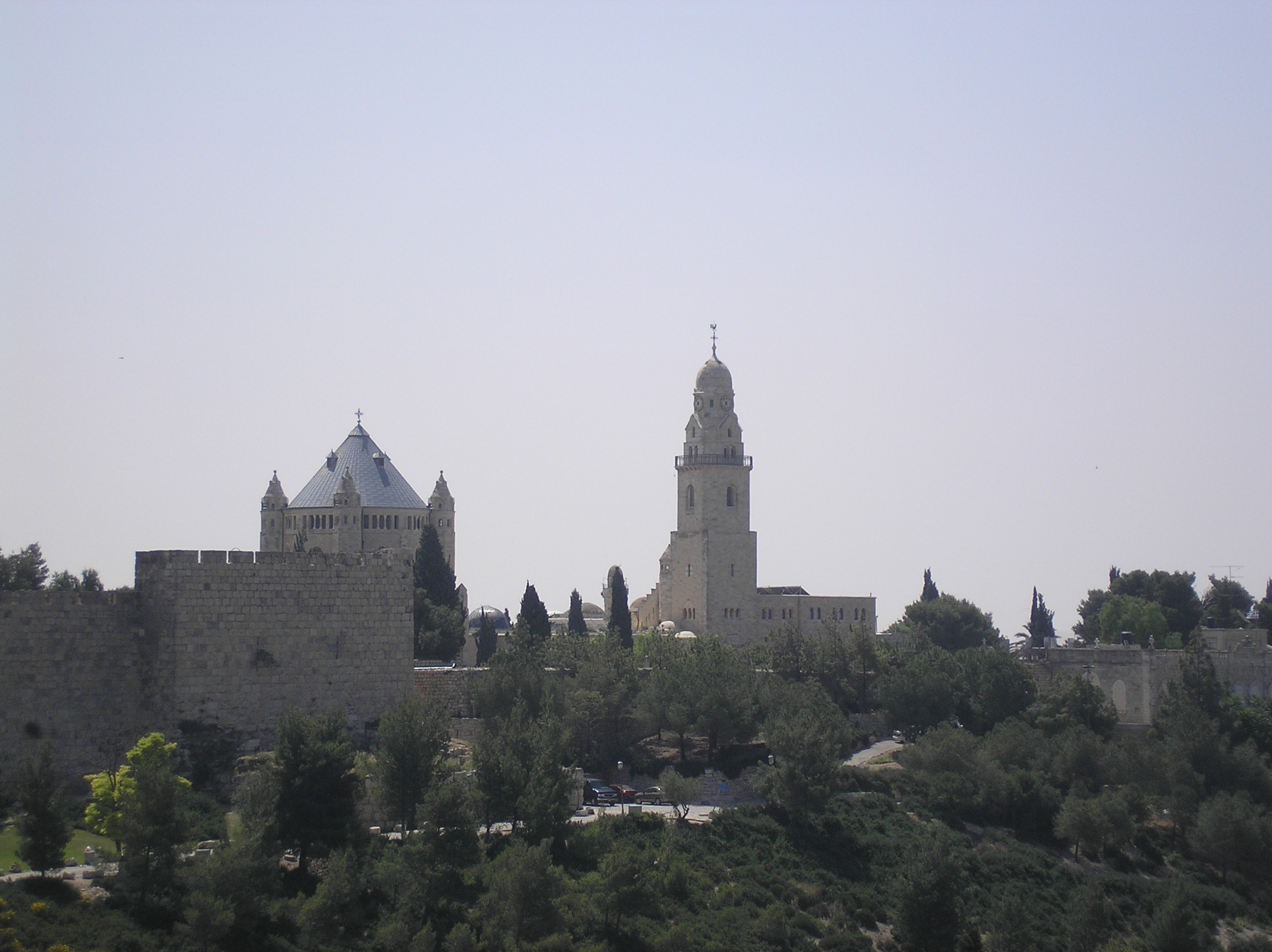 Dormition Church